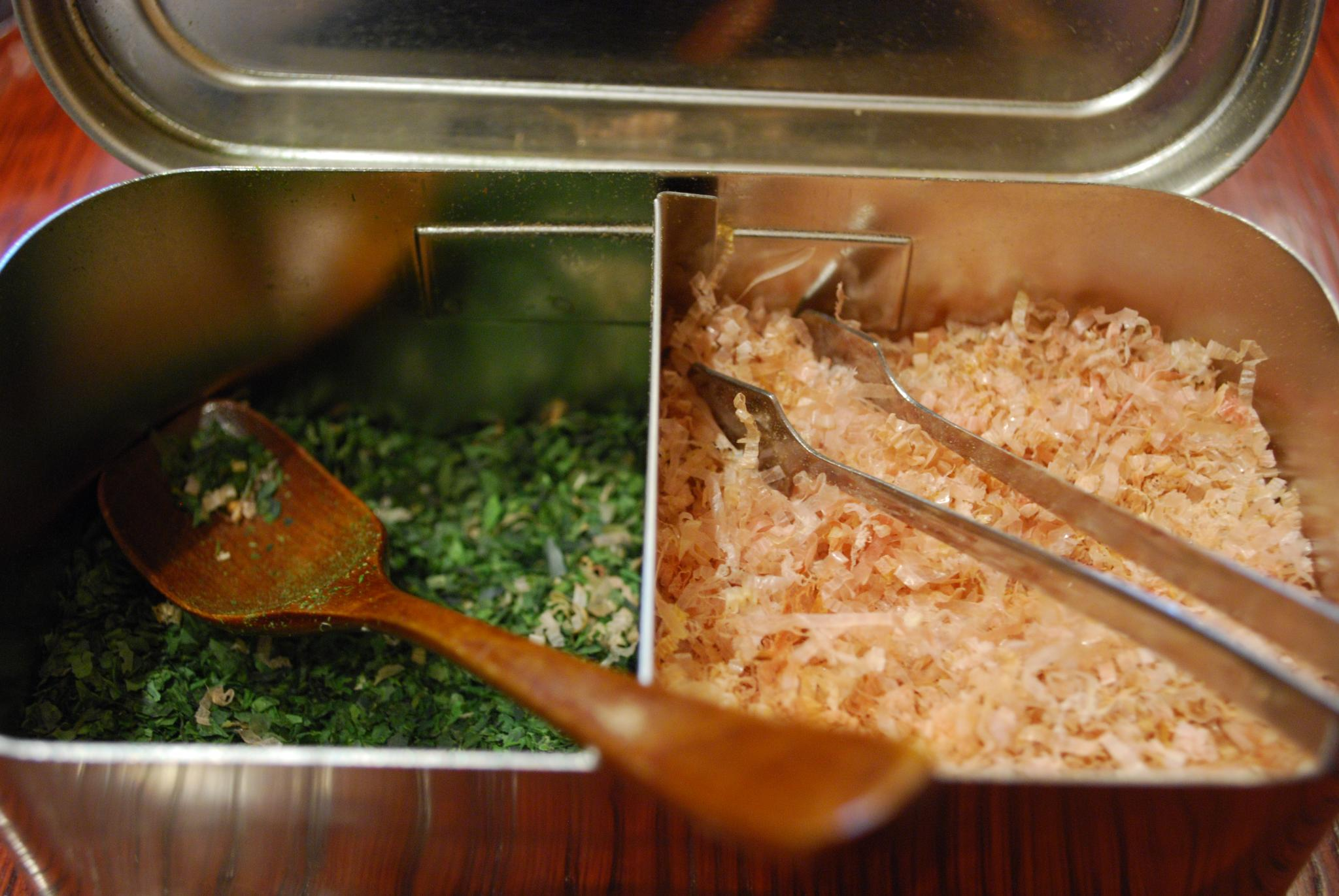 The arrival of a small metallic box filled with the typical okonomiyaki toppings of ao-nori seaweed and shaved bonito flakes signalled the imminent arrival of our Okonomiyaki Japanese pancake. --- Jugemu & Shimbashi (02) 9904 3011 246 Military Rd Neutral Bay NSW 2089 Reviews: - Jugemu & Shimbashi - by Simon Thomsen, Good Living, Sydney Morning Herald, November 20, 2007 - Jugemu & Shimbashi